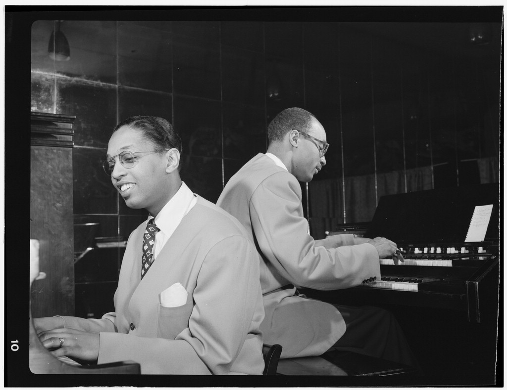 Billy Taylor (left), with Bob Wyatt, New York, between 1946 and 1948.